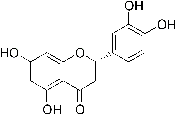 chemical structure of eriodictyol (eriodictiol)